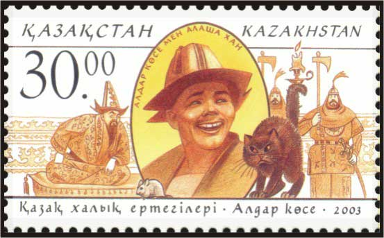 "Aldar Kose and Alan" - kazakh fairytale. Post of Kazakhstan 2003.